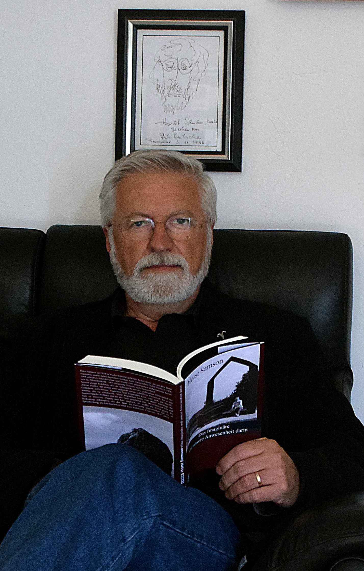 Horst Samson is reading from his great Poetry-Book "Das Imaginäre und unsere Anwesenheit darin"